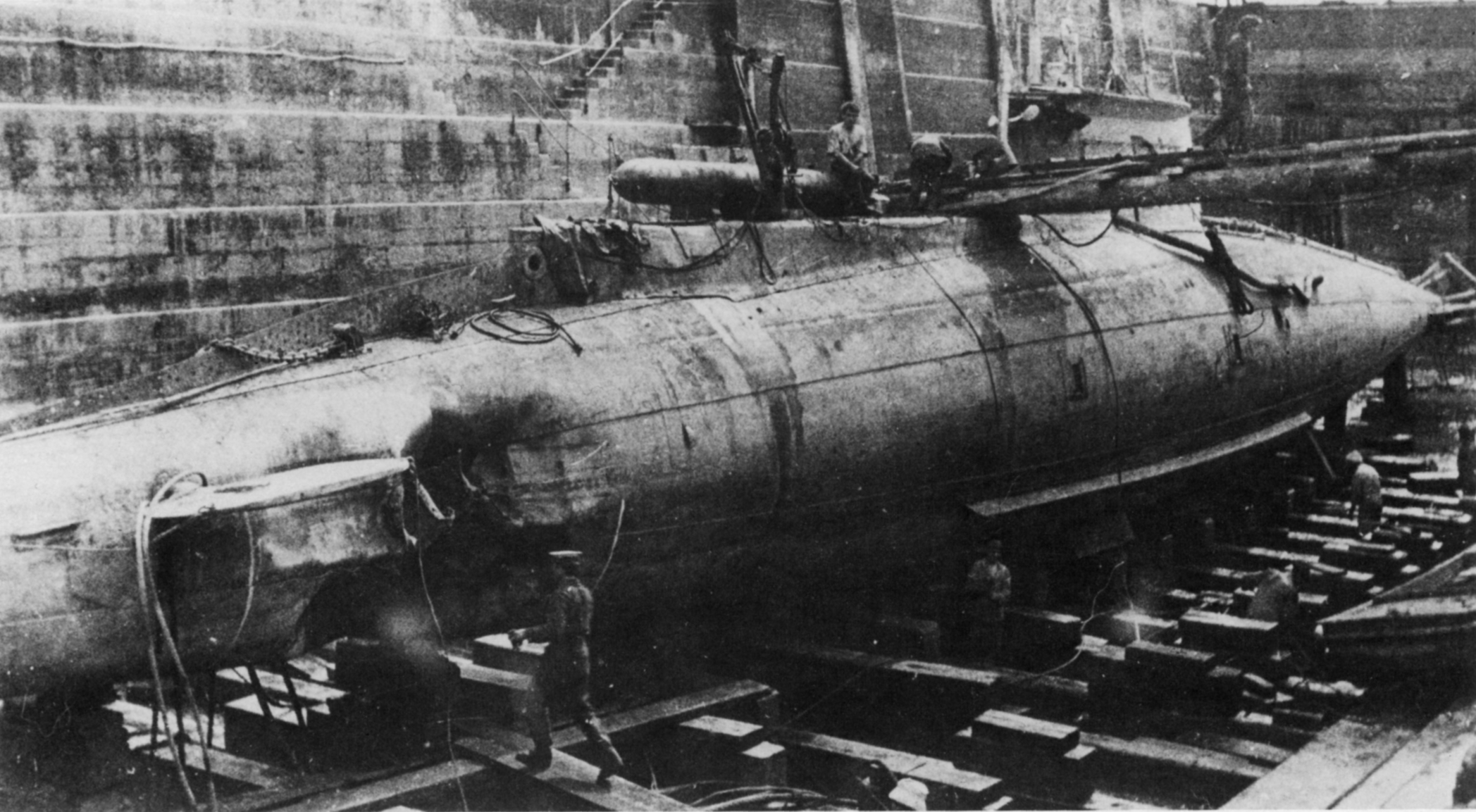 The damage suffered by the submarine B10 after being bombed